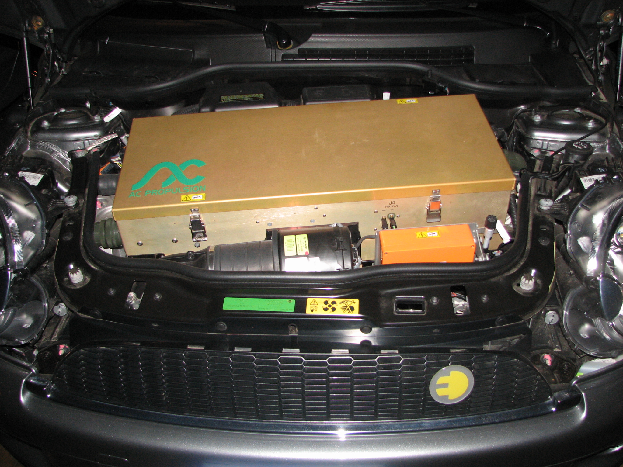 Mini-E under-the-hood shot